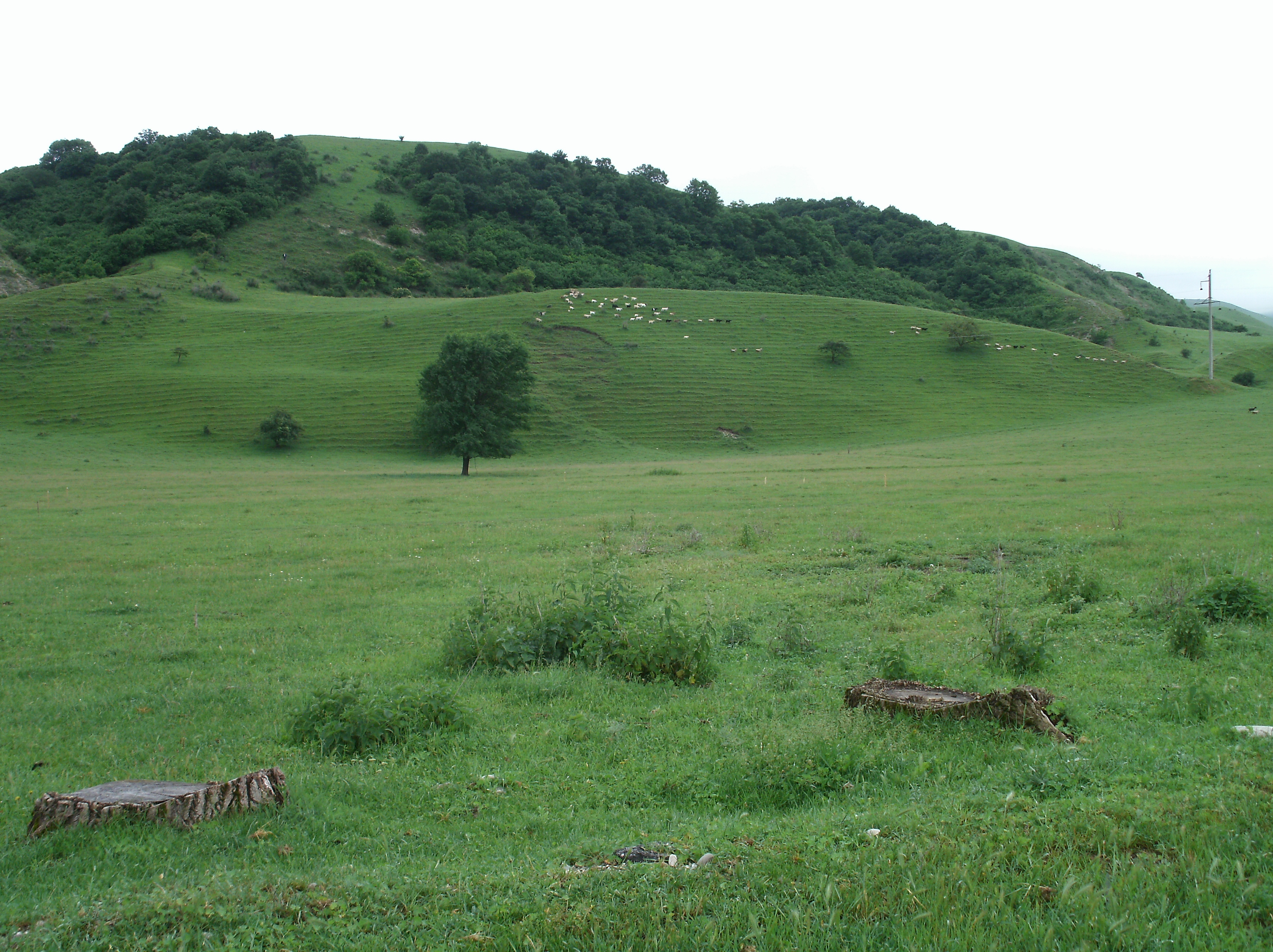 Elburgan reserve